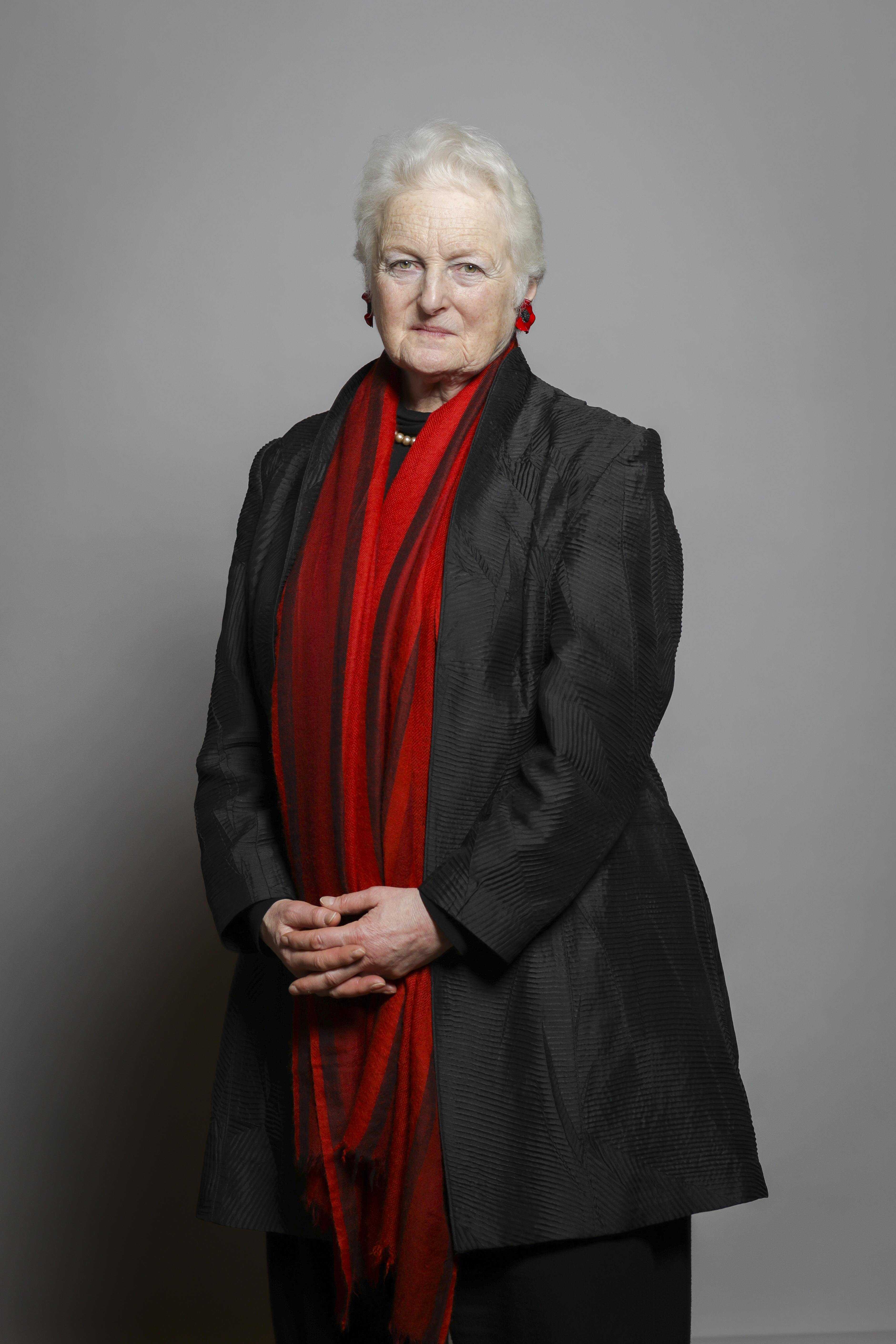 Official portrait of Baroness Neuberger Full sized portrait of Baroness Neuberger